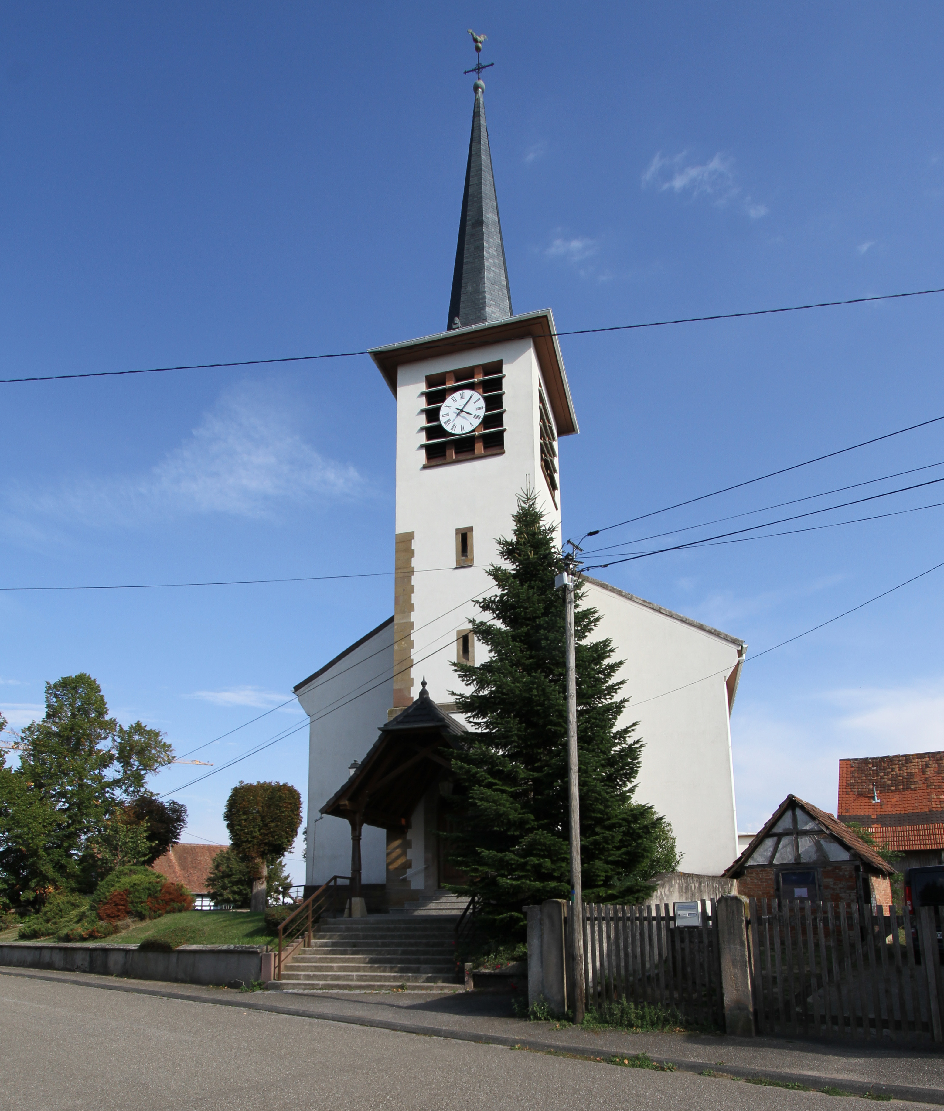 Church of Saint Agathe in Schoenenbourg.